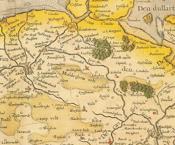 Maldegemvelt.jpg